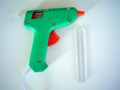 Glue gun and glue sticks